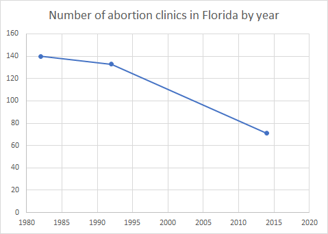 Number of abortion clinics in Florida by year. Created using data linked on .